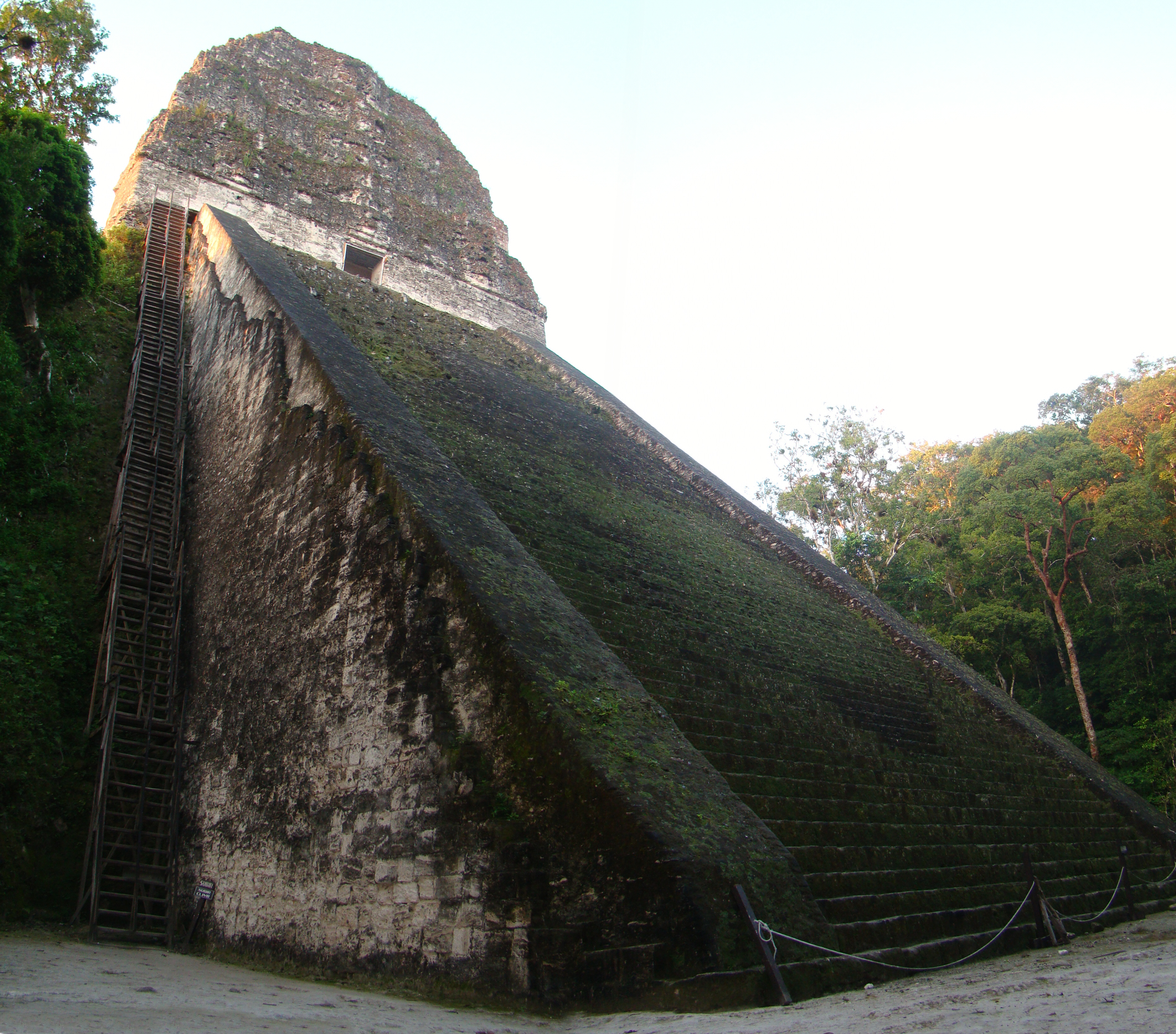 Temple V in the Mayan Tikal complex in Guatemala. Built around 700AD it stands 57 metres tall, possibly a funerary temple.